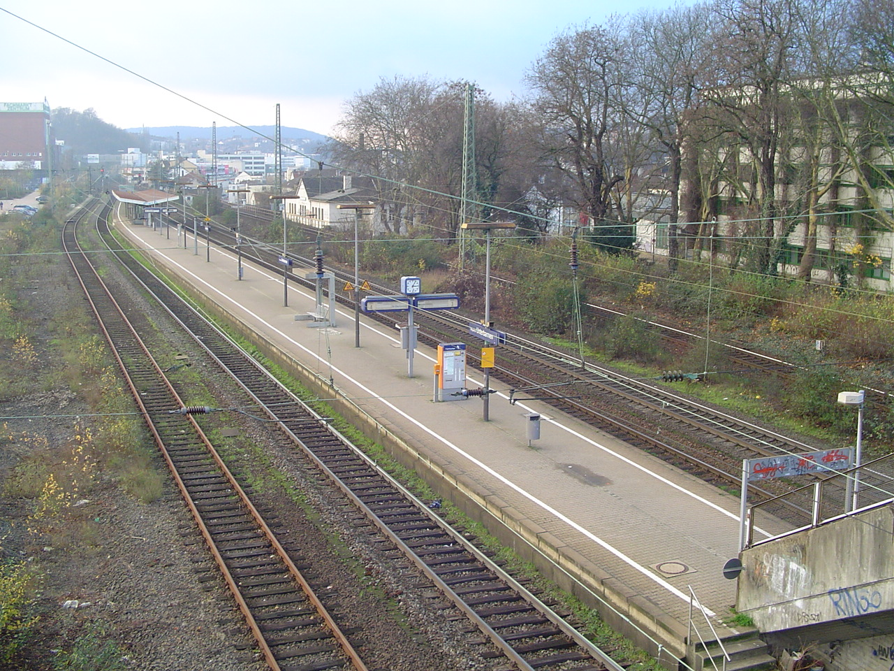 Unterbarmen train station (S-Bahn), Wuppertal, Germany